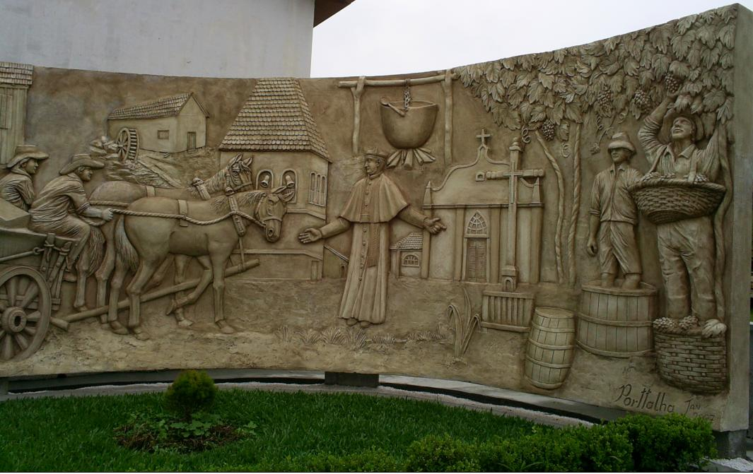 Historic Monument celebrating Italian Emigration